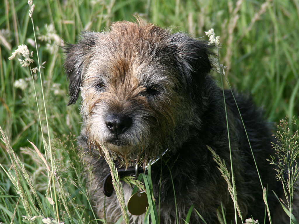 He's a cute little fella. Border TerrierSocks again!